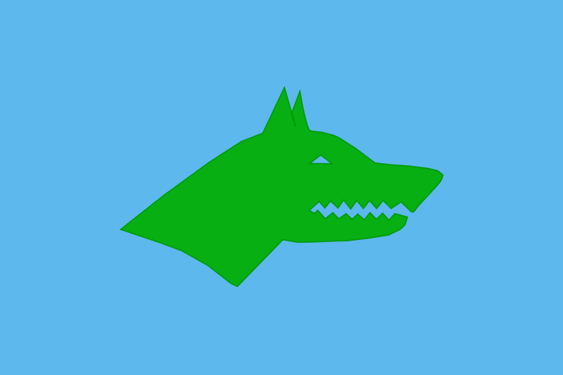 Gökturk Empire flag